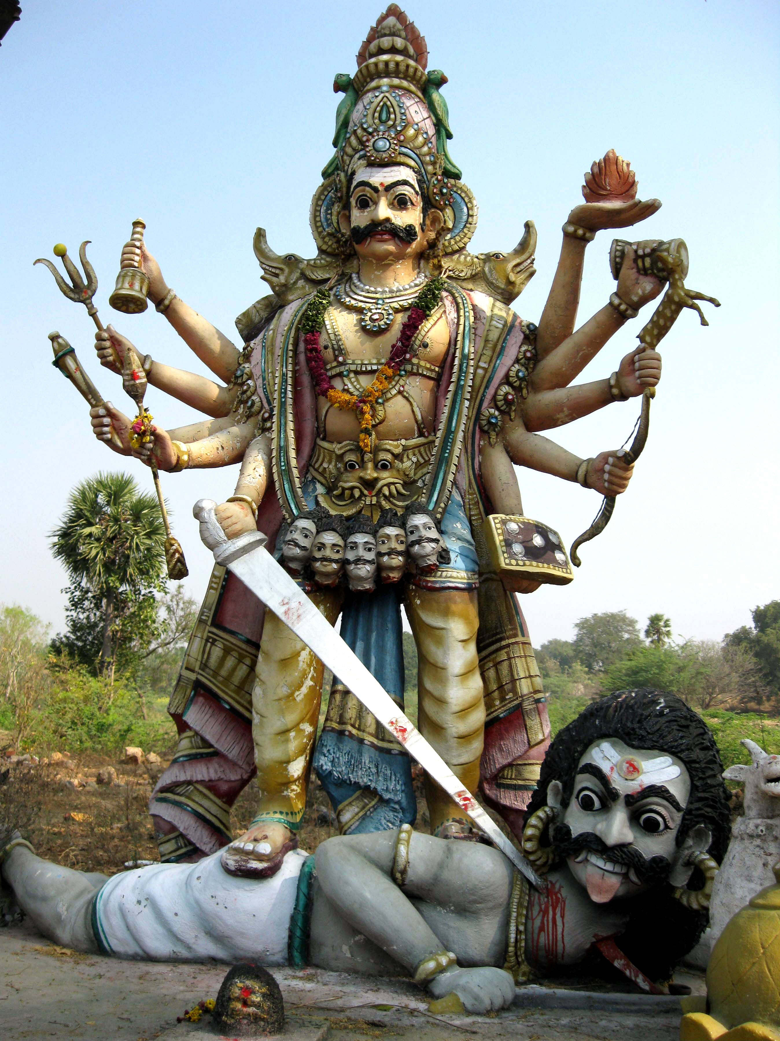 The profusely decked up stucco image of the Veerabhadra swamy in the premises of the Oomaiyanur Aathupalam Maha Muniappan Kovil in the Uthangarai circle of the Dharmapuri district.